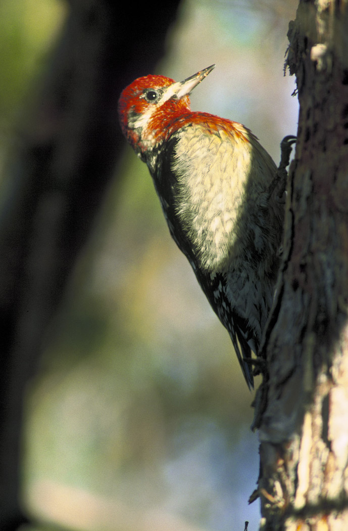 Red-breasted Sapsucker (Sphyrapicus ruber)